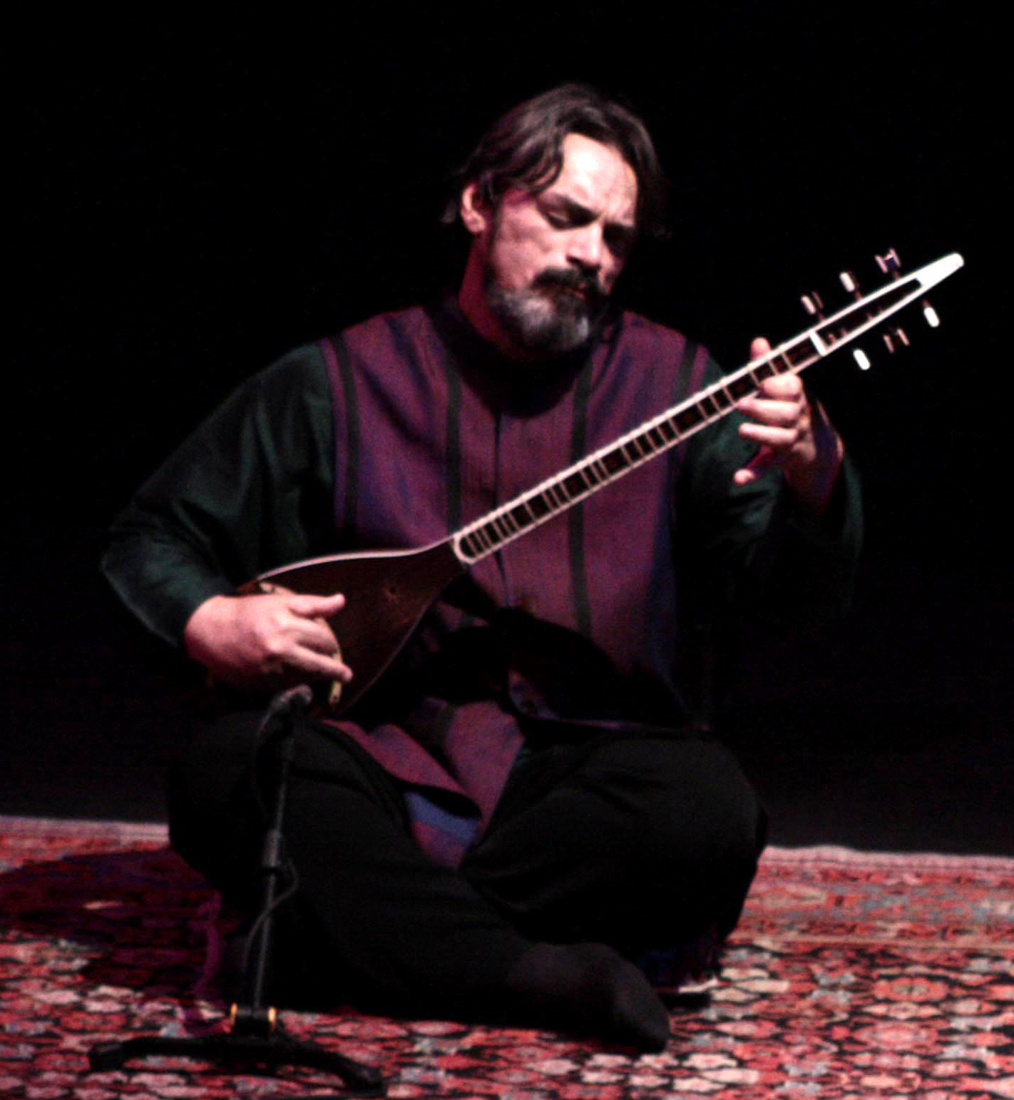 Hosein alizadeh in milan consert